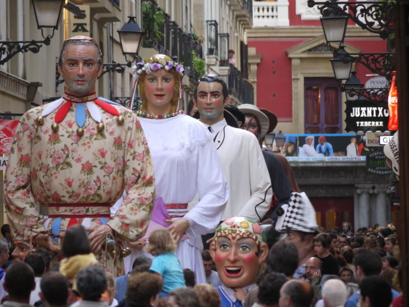 Giants and big heads in Donostia Saint Sebastian